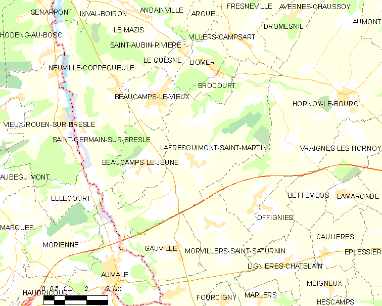 Map of French municipality Lafresguimont-Saint-Martin